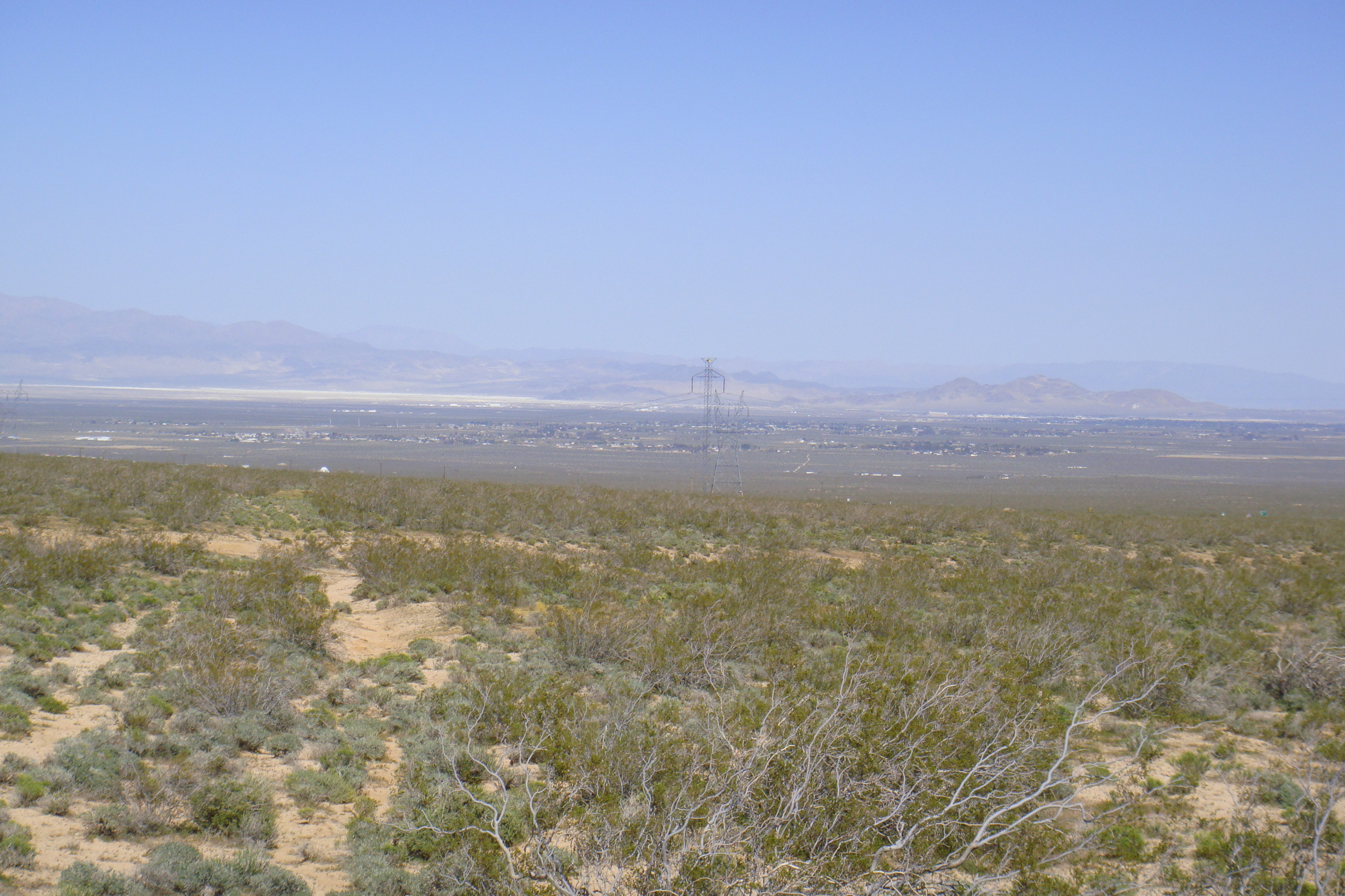 Overview shot of Ridgecrest, California.